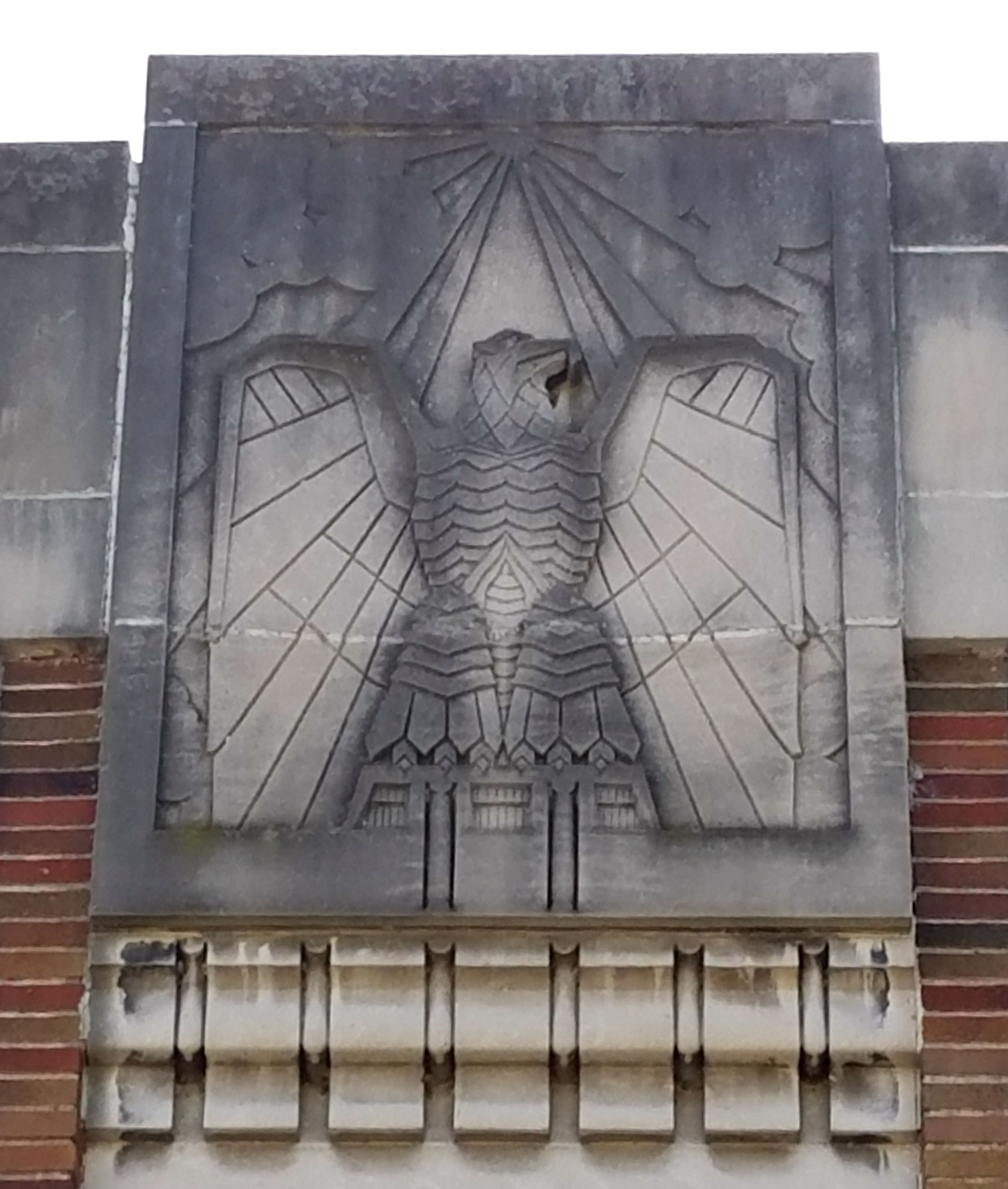 Art deco architectural detail of an eagle located on the Washington Junior High School in Clinton, Iowa. This location is listed on the National Register of Historic Places.